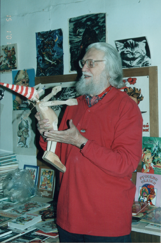 Artist and writer Leonid Vladimirsky